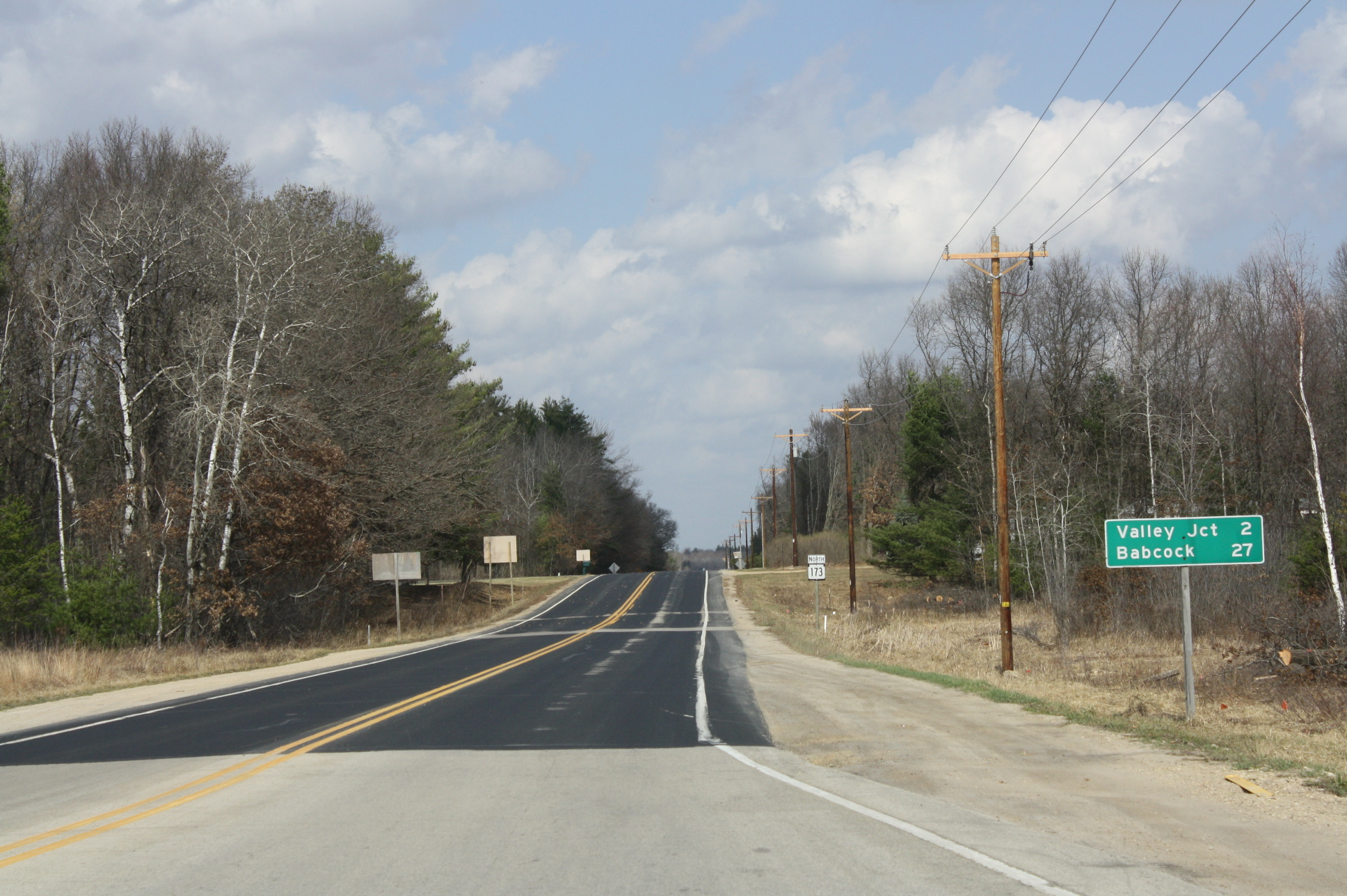 Looking north from the southern terminus on Wisconsin Highway 173.